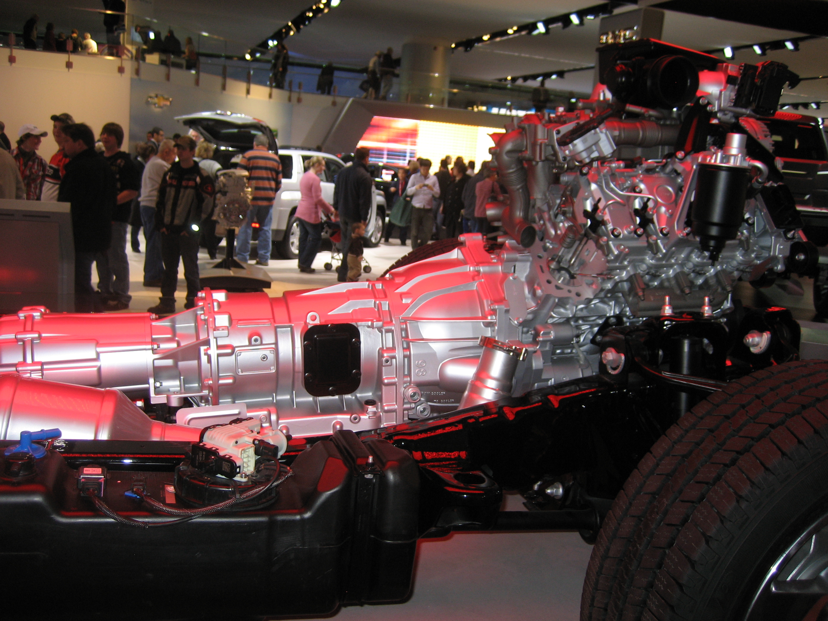 Allison 1000 attached to 6.6 Duramax Diesel. At the 2011 Detroit Auto Show.